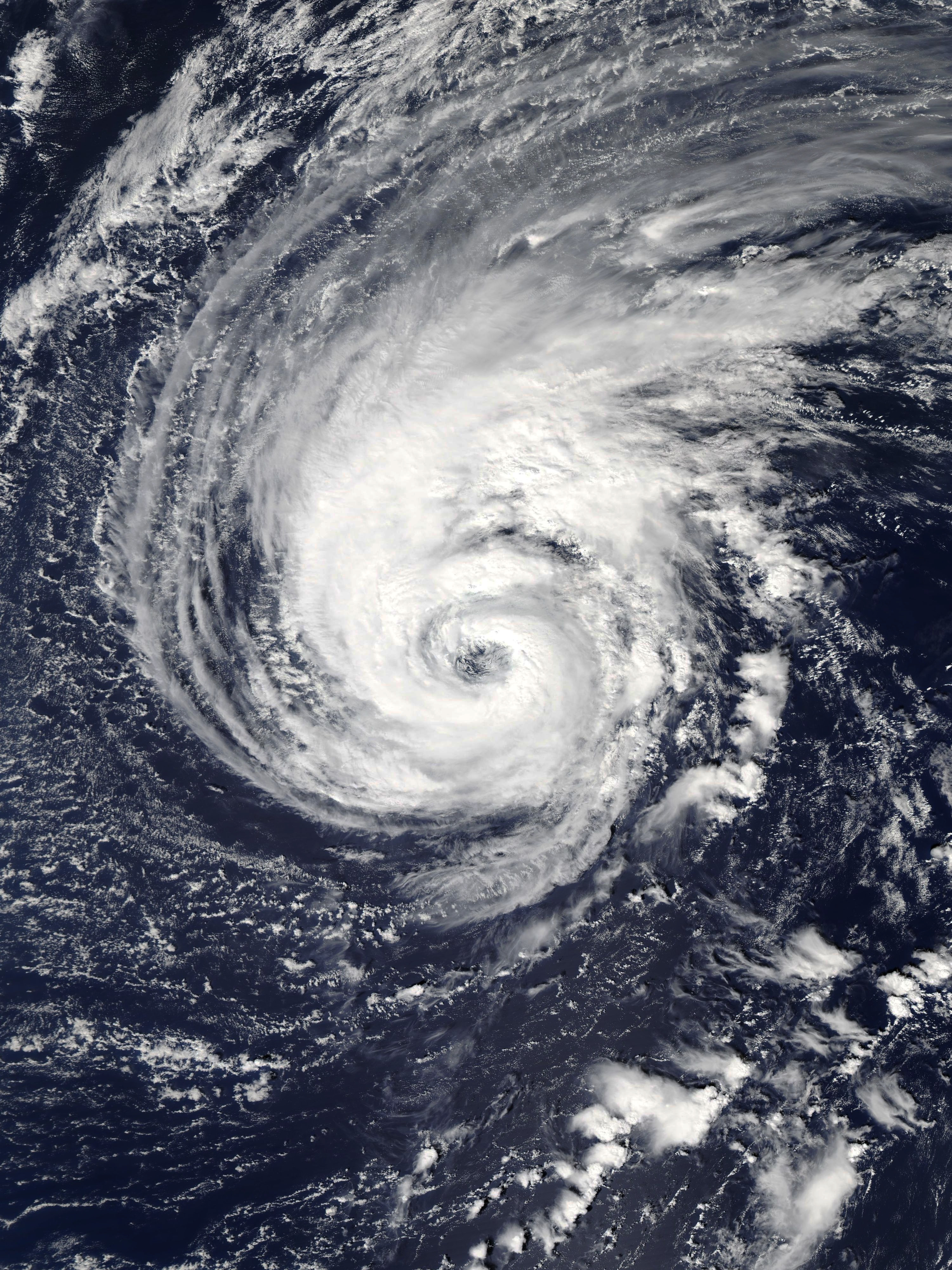 Hurricane Leslie on October 3, 2018